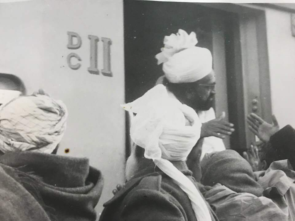 Syed Ghulam Mohiyyuddin Gilani, Babuji Golra Sharif coming out of train at Rawalpindi Railway Station